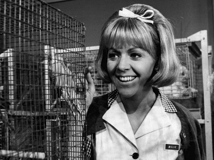 Photo of Arlene Golonka as Millie Swanson from the television program Mayberry R.F.D..